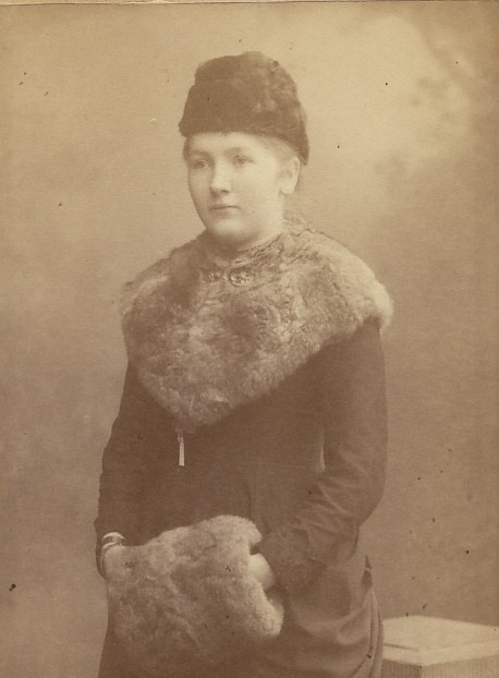 Photograph of Leyla Açba